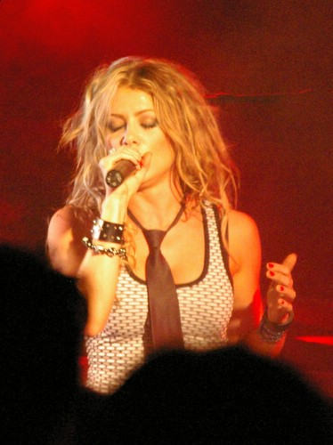 Natalie Bassingthwaighte performing live with the Rogue Traders at La Trobe University Bendigo